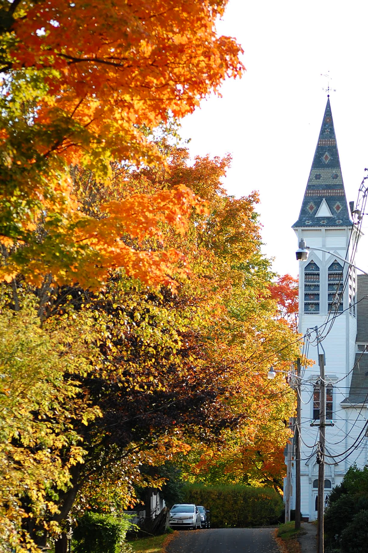 The First Congregational Church in central Georgetown, Massachusetts, seen from Middle Street